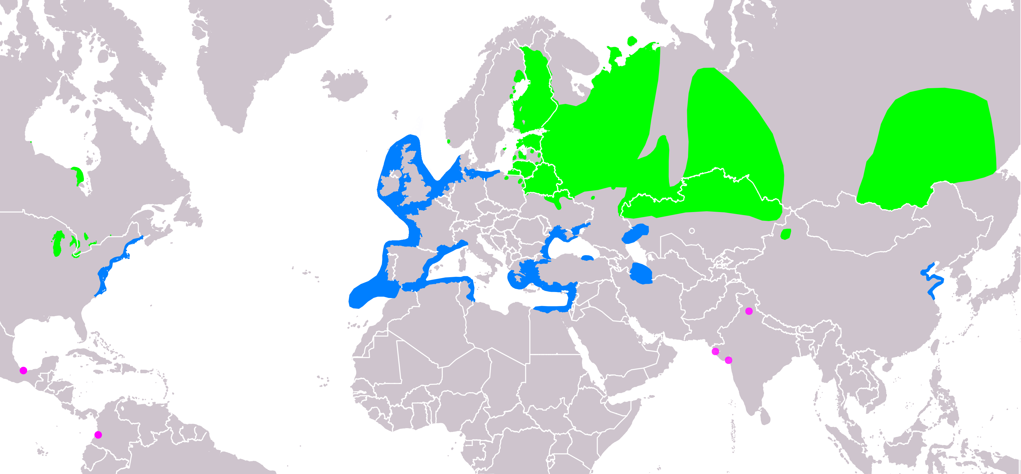 Distribution map of little gull (Hydrocoloeus minutus) according to IUCN version 2018.2 , Legend: Extant, breeding (#00FF00), Extant, non-breeding (#007FFF), Extant & Vagrant (seasonality uncertain) (#FF00FF)